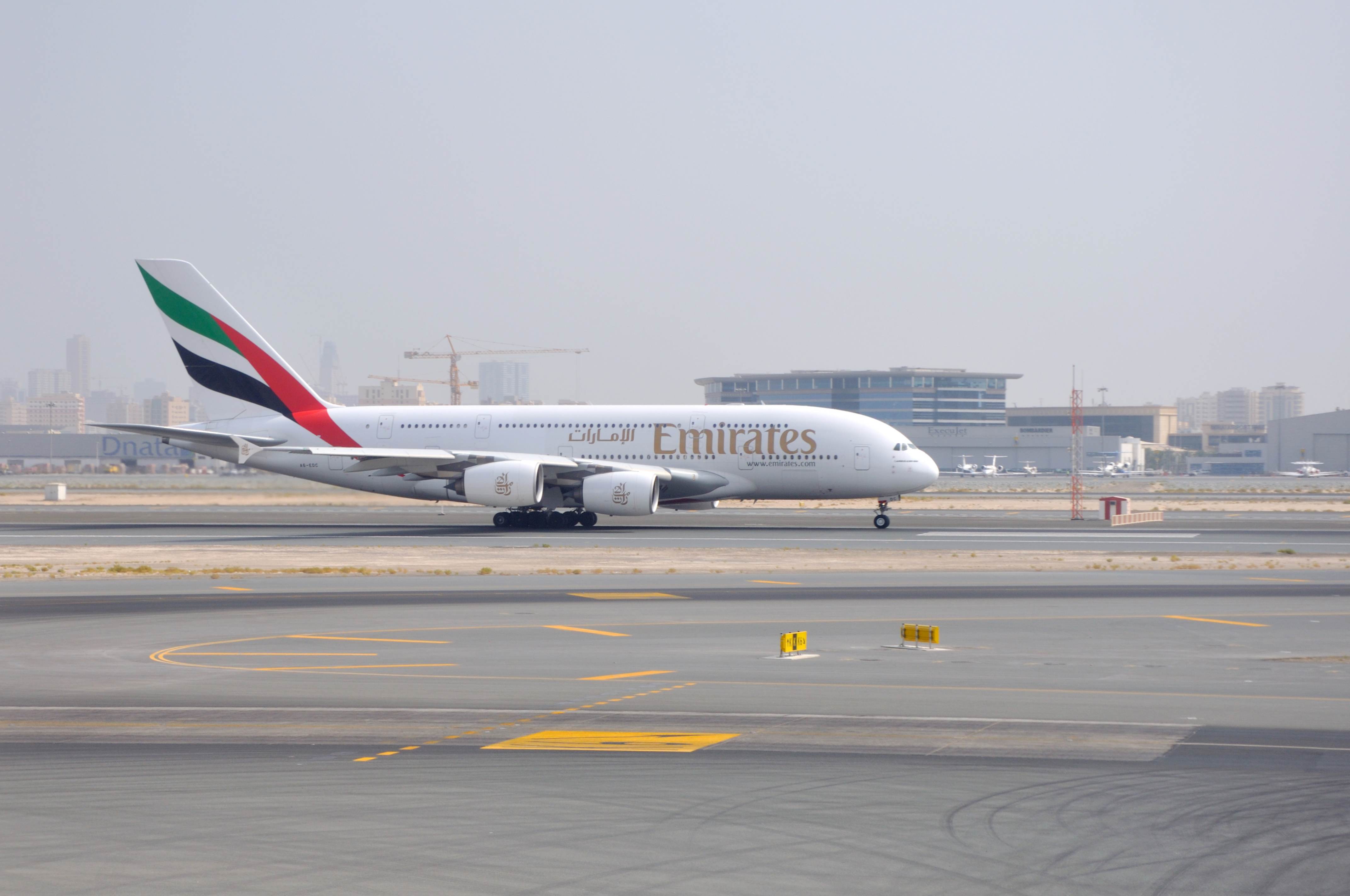 United Arab Emirates, Emirates' A380-800 A6-EDC pulling down runway 12R